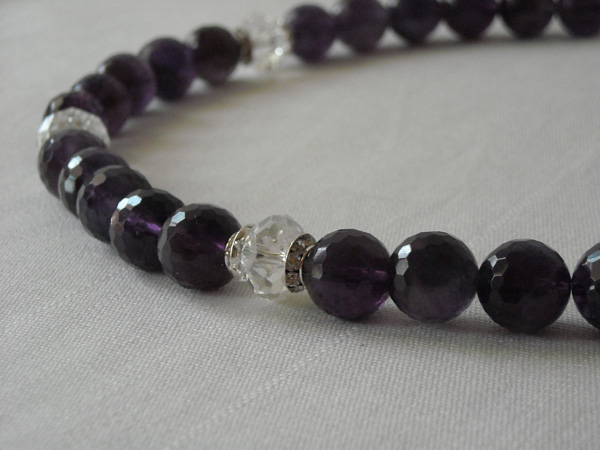 Necklace from amethyst and crystal